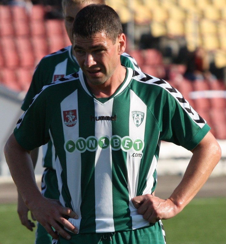 Egidijus Juška playing for Žalgiris Vilnius.